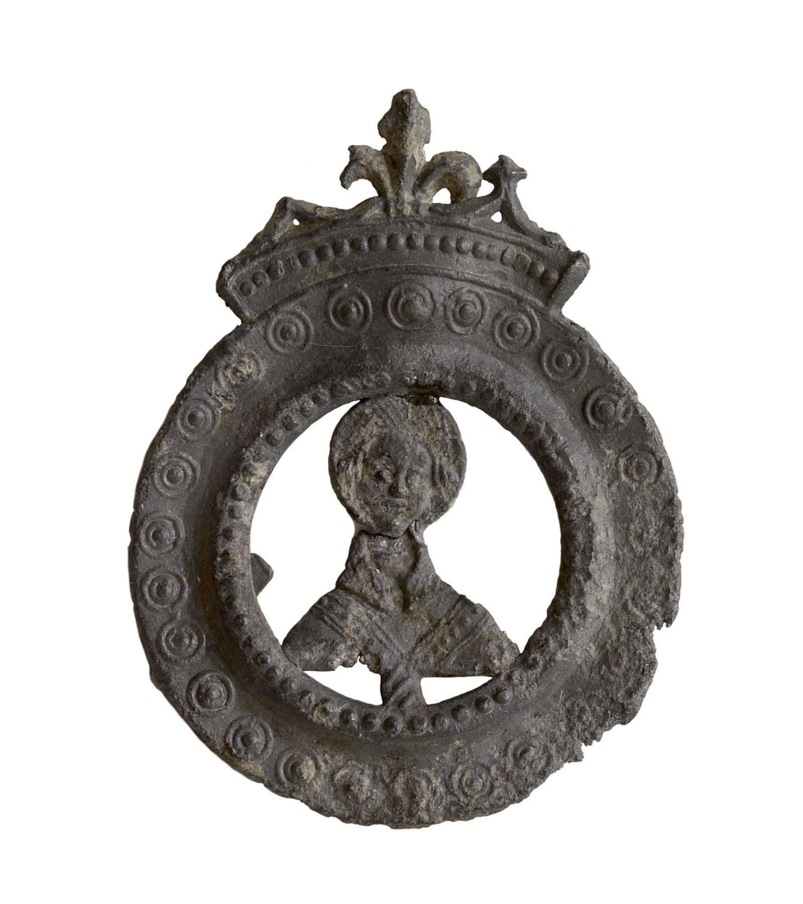 Lead badges such as this one were purchased by pilgrims as mementos of holy sites they had visited. Originally there were loops at top and bottom for the pilgrim to sew the badges onto a hat or cloak. This example represents a crowned saint.